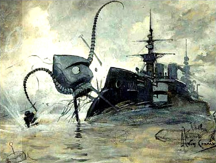 Illustration by Henrique Alvim Corrêa, from the 1906 Belgium (French language) edition of H.G. Wells' "The War of the Worlds", 1906. Orginal caption / oryginalny opis